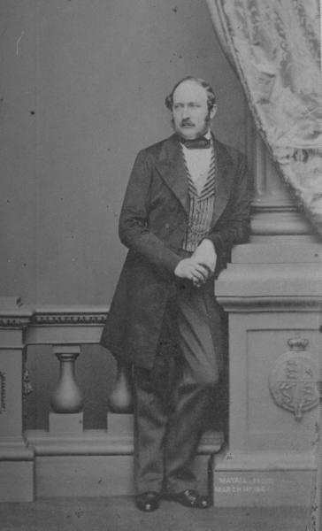 Prince Albert in 1861